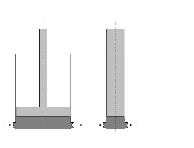 different types of piston pump